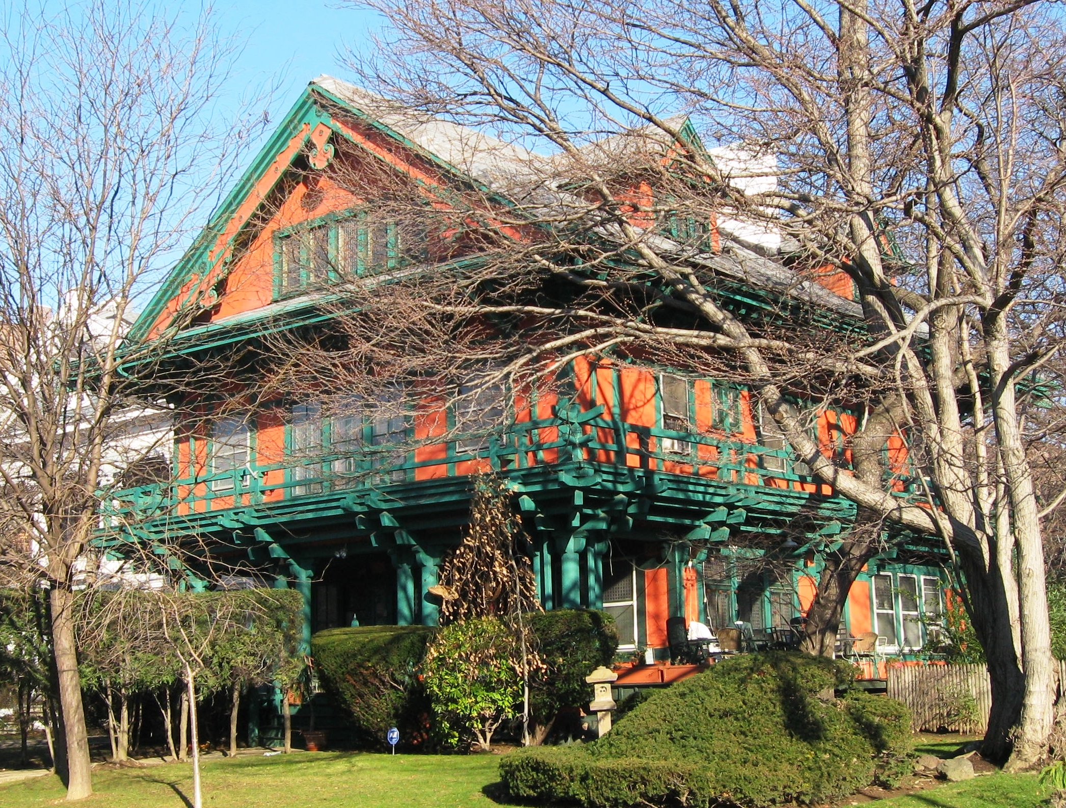 Looking east at Japanese styled house on a sunny Christmas afternoon.